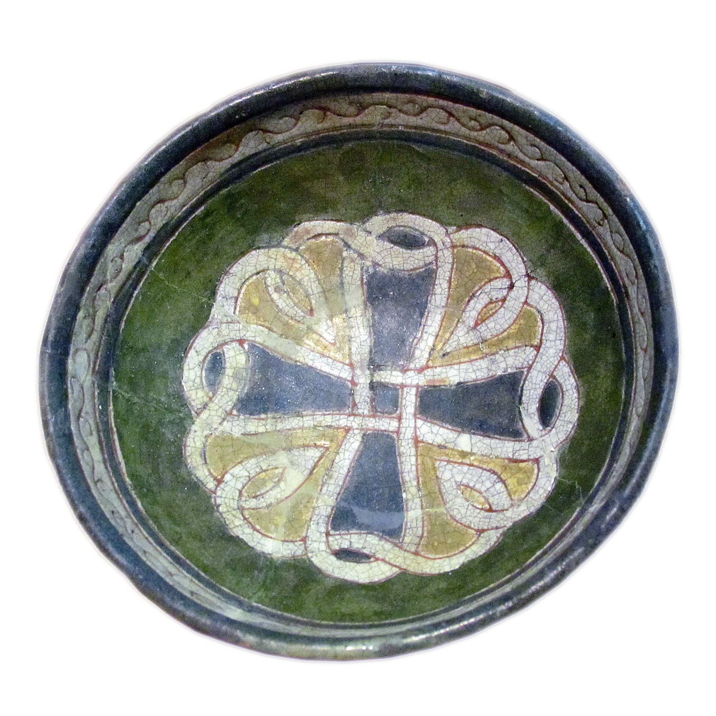 Bowl, Pec, 14th c. National Museum of Serbia